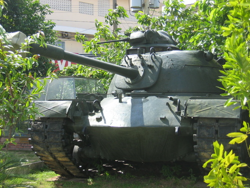 M-48 Tank at the No 7 Army Museum, Saigon